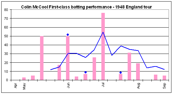 FC batting chart for Colin McCool during the 1948 tour of England. Blue line is an average for five most recent innings, blue dots are not outs. Bars are runs scored. Pink for FC, red for Tests